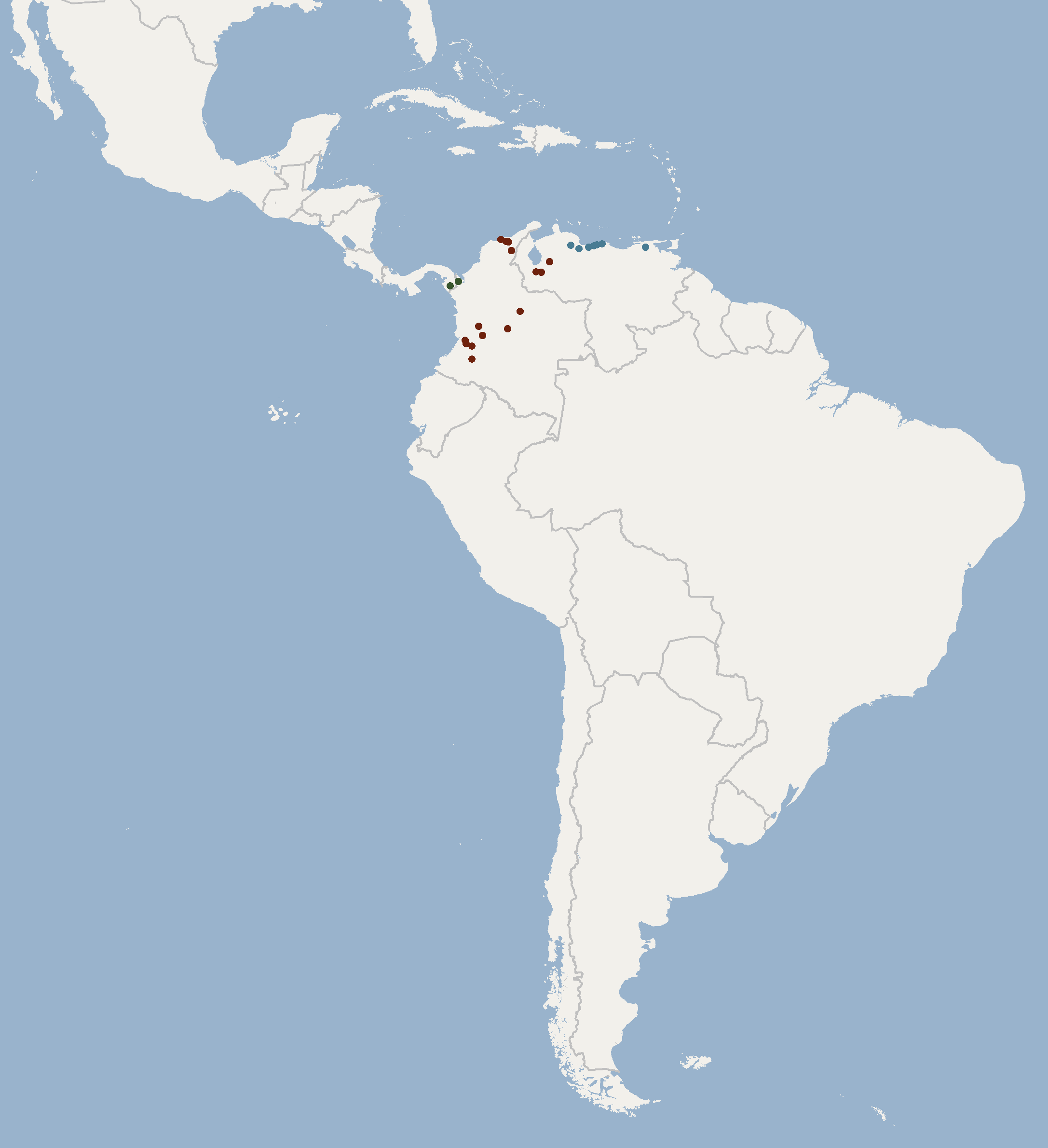 According to Velazco & Gardner, 2009